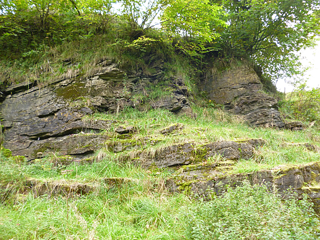 East Kirkton Quarry in West Lothian in Scotland. An outcrop of limestone, discontinuous as a result of faulting, runs through the Bathgate Hills, roughly south to north, and has been extensively quarried. The quarries are all long and narrow, abandoned, and mostly very overgrown. East Kirkton is of international importance because it has yielded a quantity of very significant fossils, including 'Westlothiana lizziae', popularly known as 'Lizzie', which is a key link between amphibians and reptiles. 'Lizzie' was found in 1988 and is now in the National Museum of Scotland.